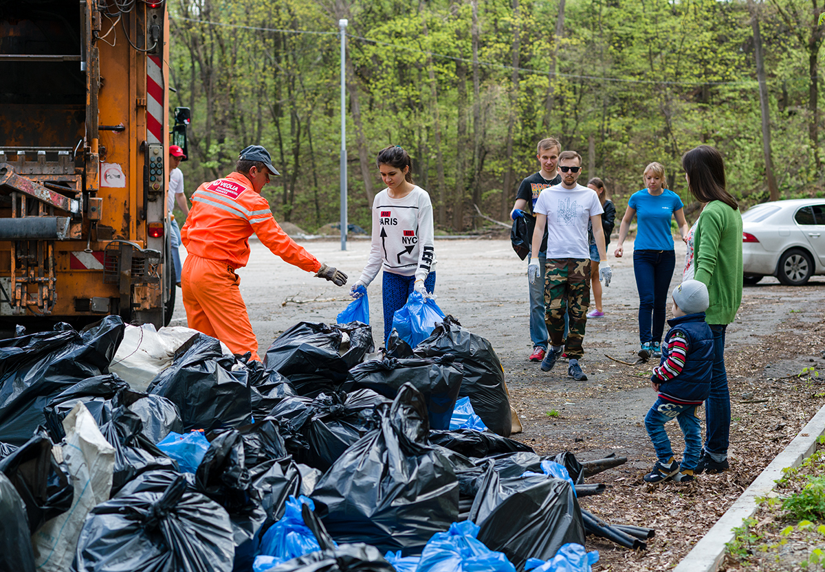 Let's Do It! Ukraine, 25th of April 2015